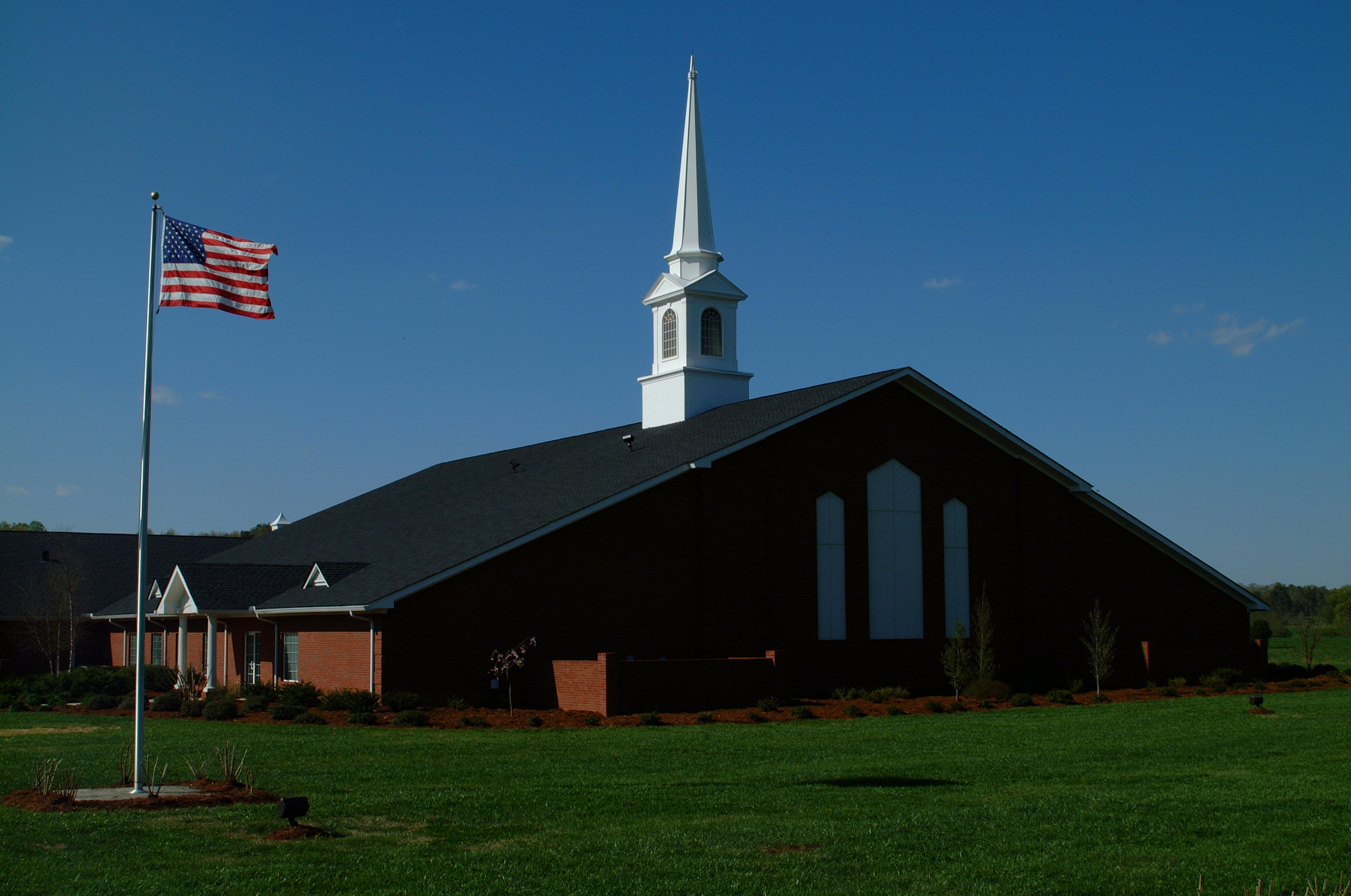 The Calhoun Seventh-day Adventist Church located in Calhoun, GA, USA.